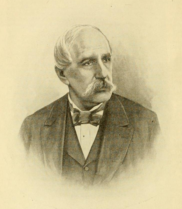 The Olympic games at Athens, 1906 (1906) Author: Sullivan, James Edward, 1862-1914 Subject: Olympic Games (1906 : Athens, Greece) Publisher: New York, American Sports Publishing Company Language: English Call number: 7740541 Digitizing sponsor: Sloan Foundation Book contributor: The Library of Congress Collection: americana [Open Library icon] This book has an editable web page on Open Library.